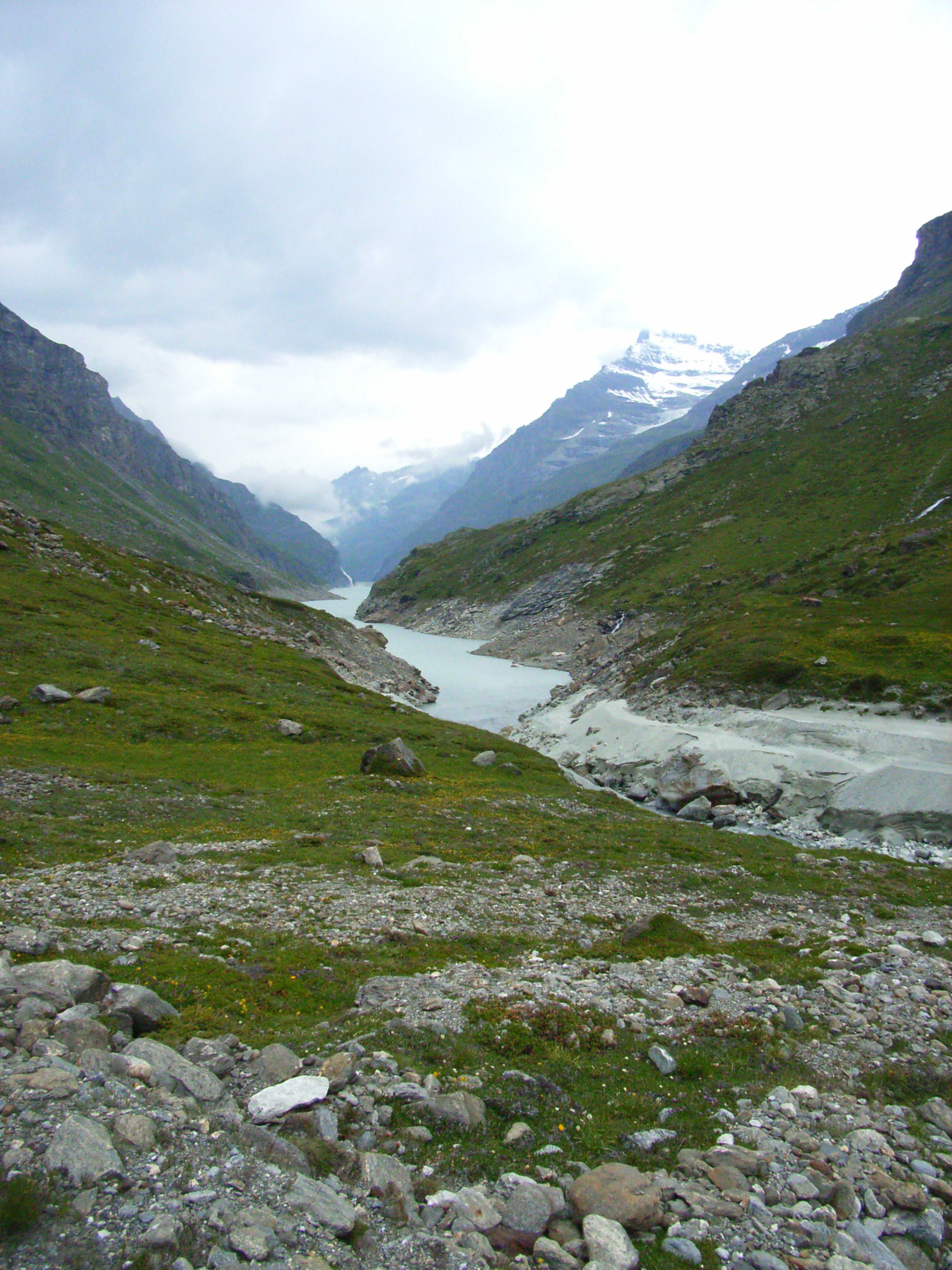 Lac de Mauvoisin, upper inflow of Dranse, fluvial channel-mouth bar (Valais, Switzerland)